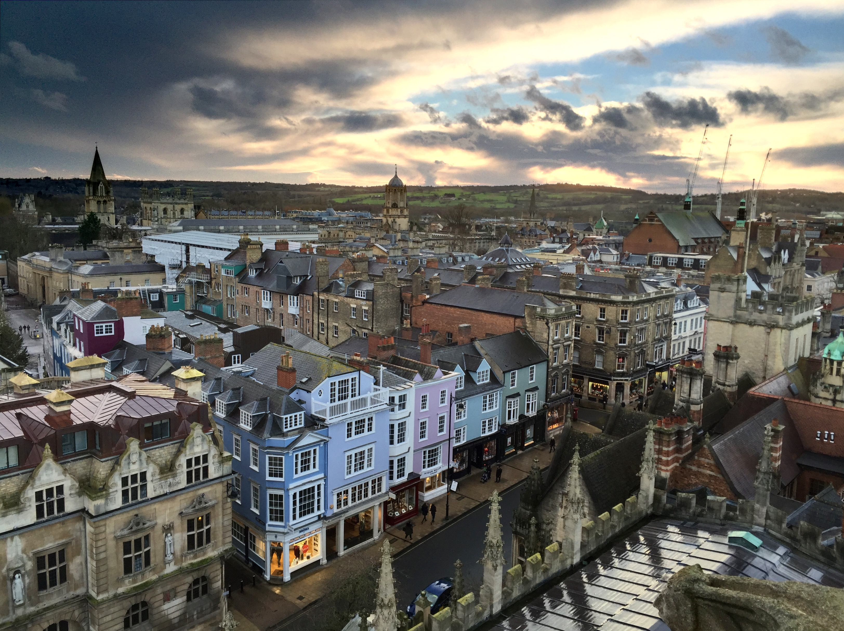 View of Oxford, UK, from St Mary's